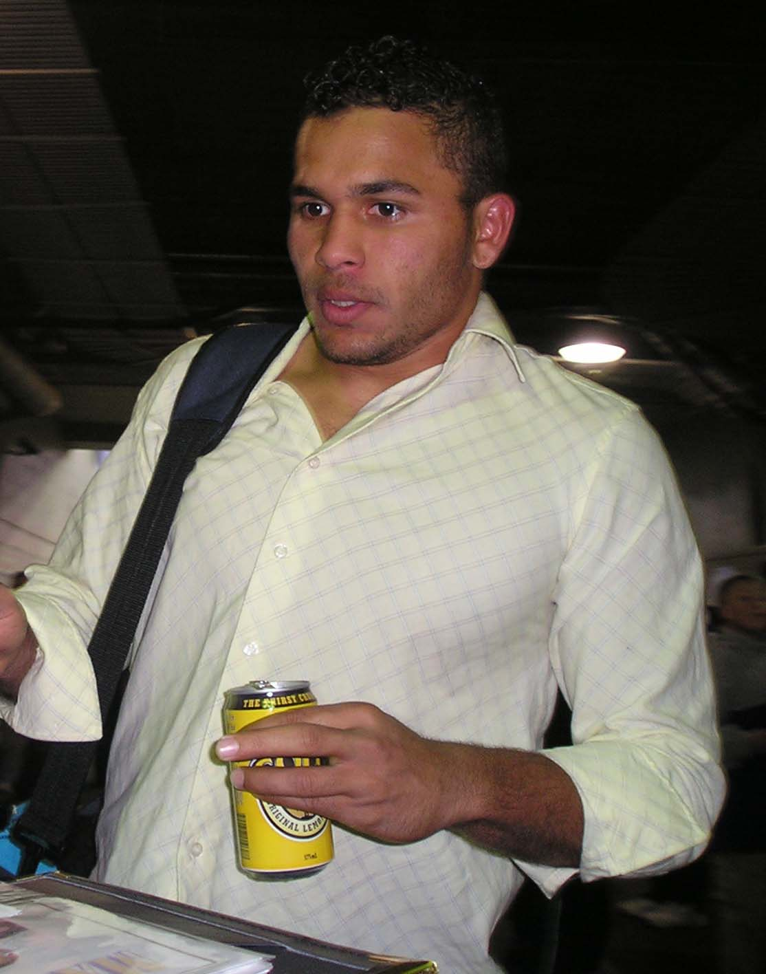 Townsville Cowboys fullback Matt Bowen